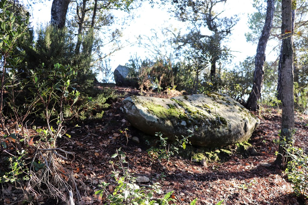 Menhir del Trull